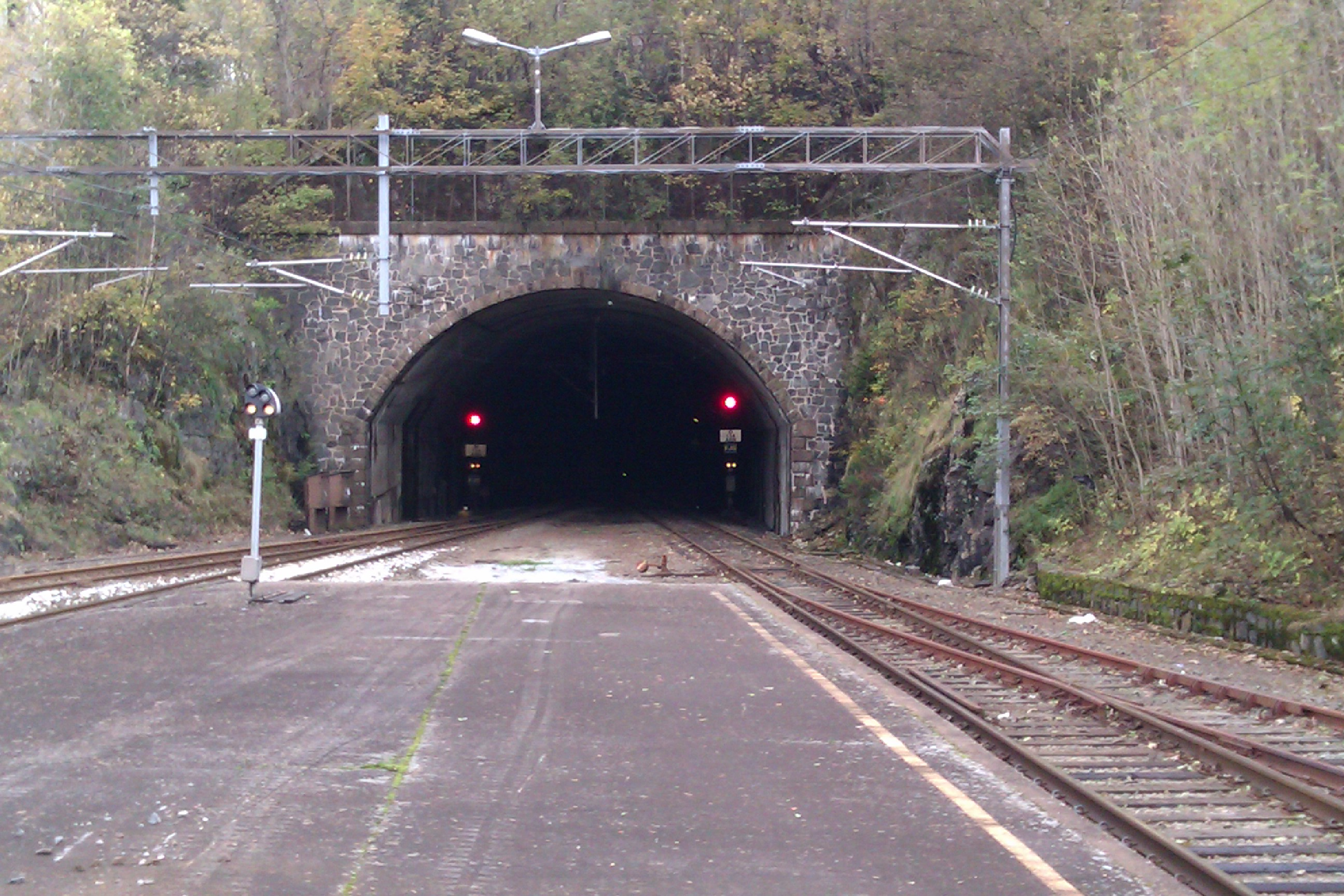 Entrance to Arnanipa Tunnel from Arna Station in Bergen, Norway